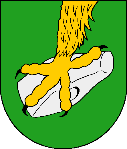 Coat of arms of the municipality Wentorf (Amt Sandesneben) in Schleswig-Holstein, Germany.